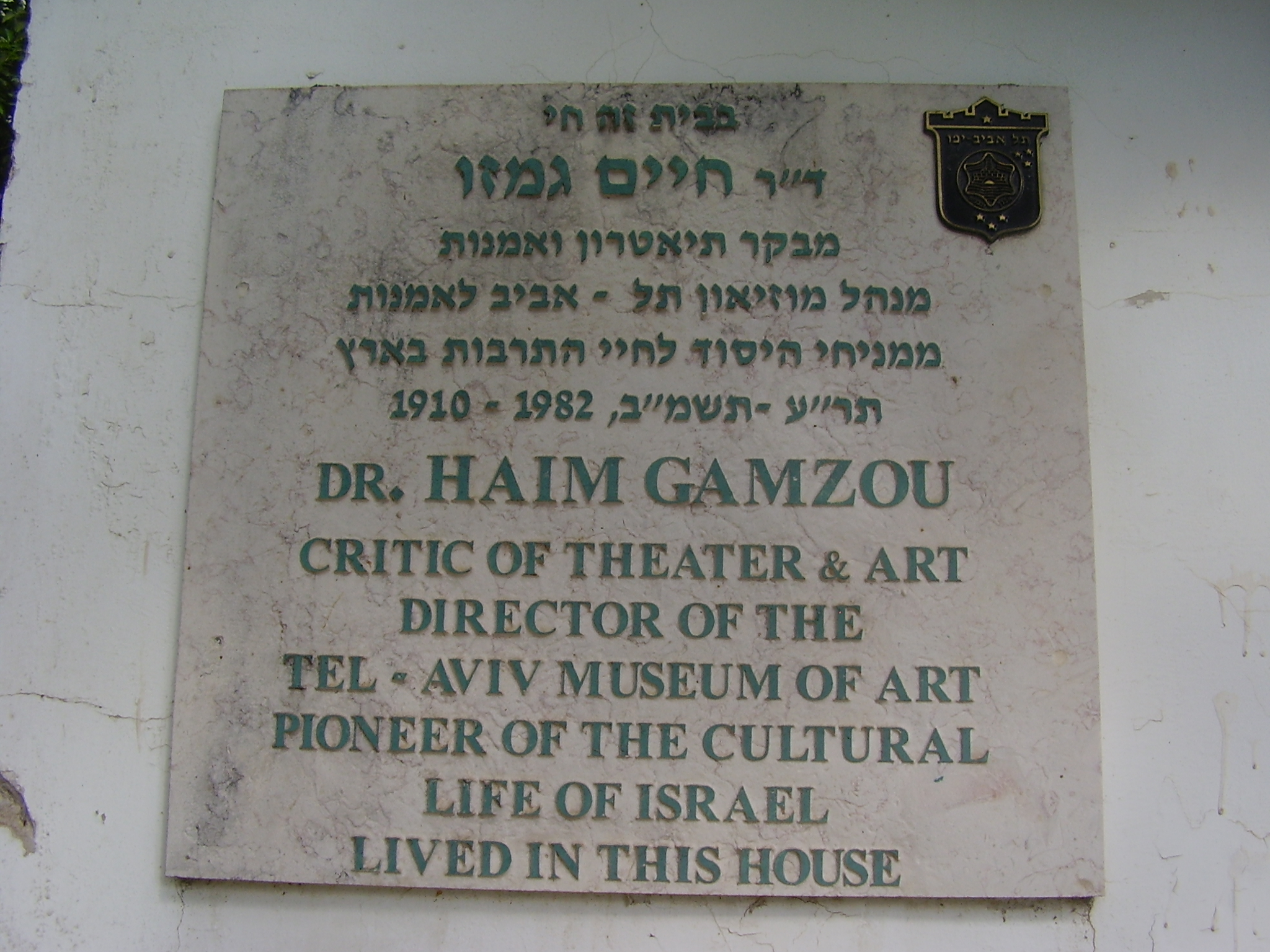 memorial plaque on dr. haim gamzou house in tel aviv לוחית זיכרון על ביתו של ד"ר חיים גמזו ברח' בר כוכבא 67 בתל אביב